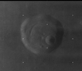 Crater Peirce on the Moon.